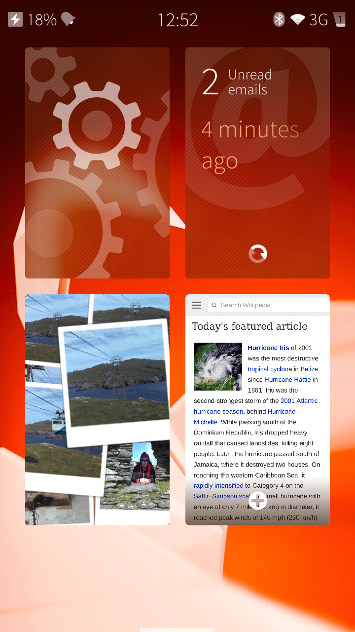 Sailfish tiled window view on Intex Aqua Fish, OS Version 2.0.2.51 (Gallery pics: Dursey Island)